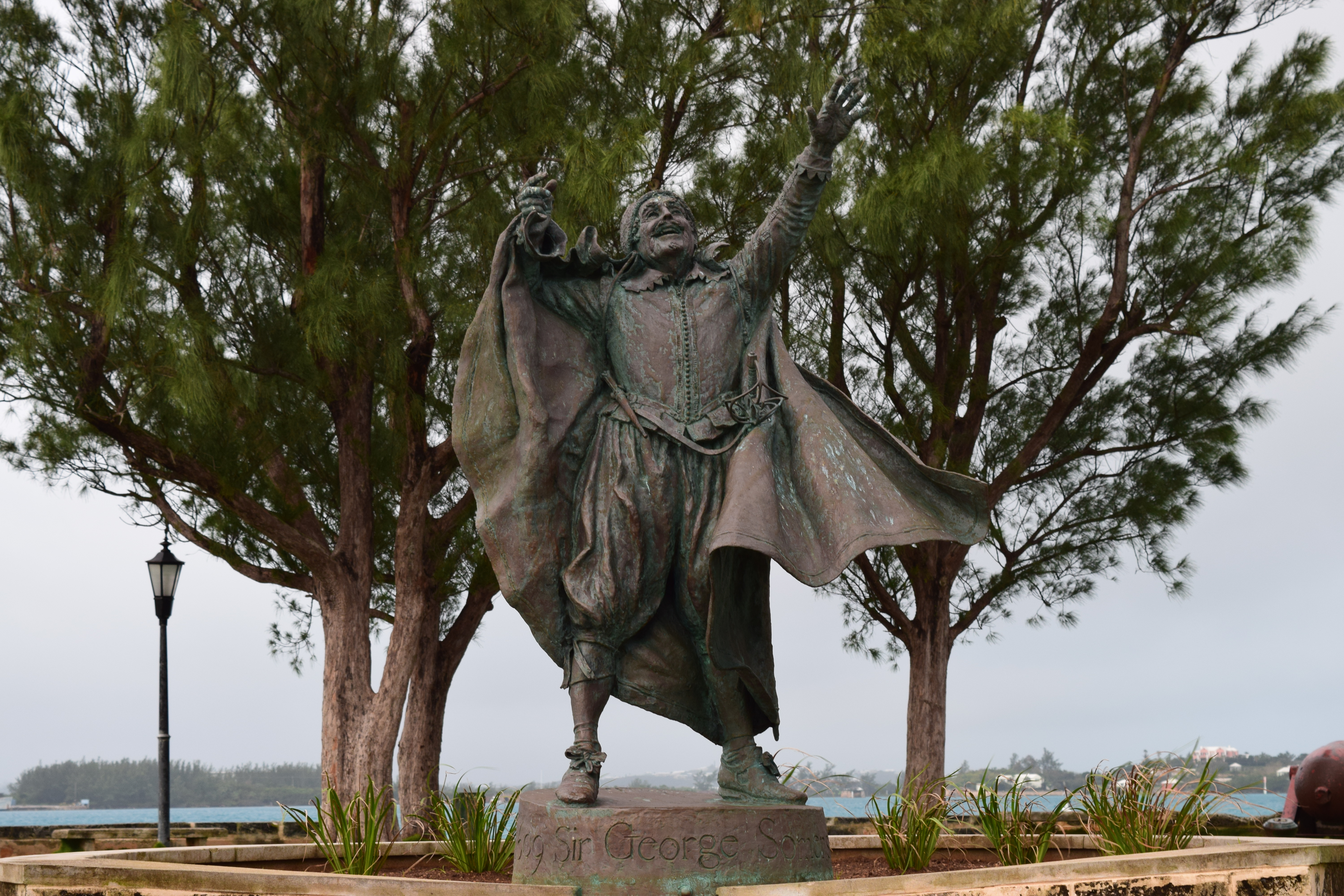 Statue of Sir George Somers on Ordinance Island, St George Harbour.